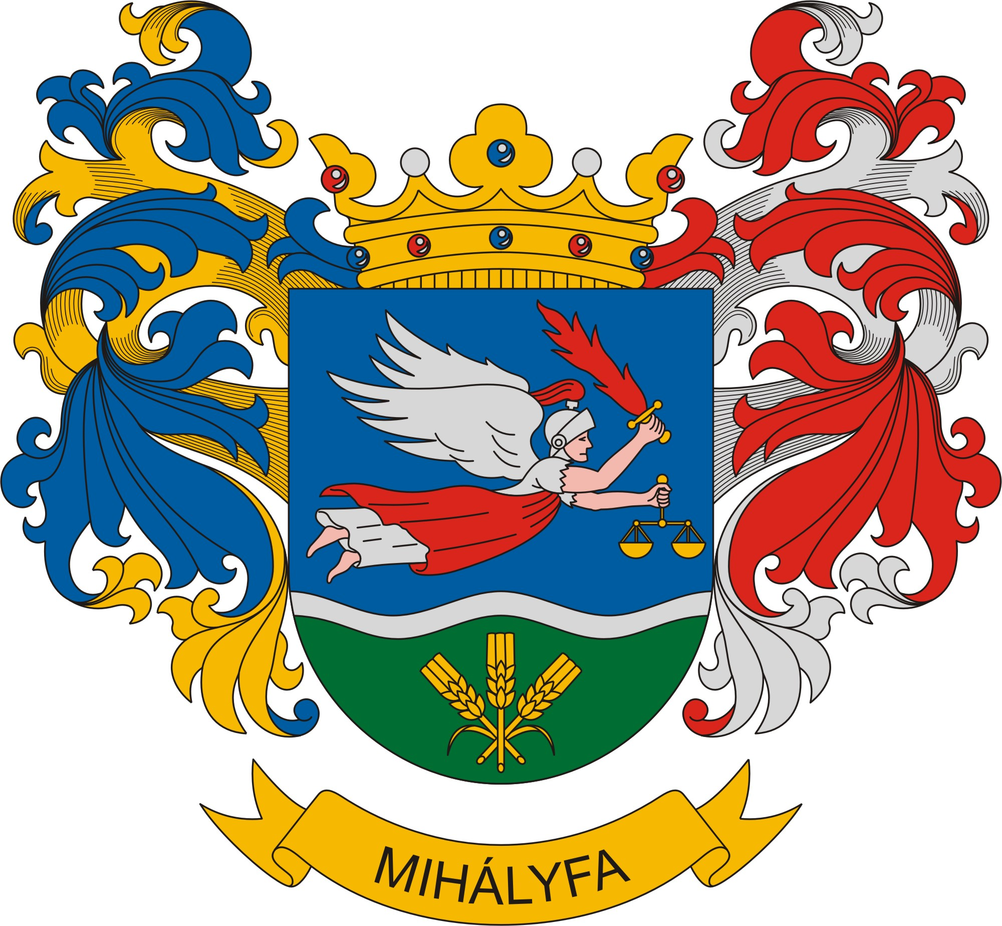 Coat of arms of Mihályfa, Hungary